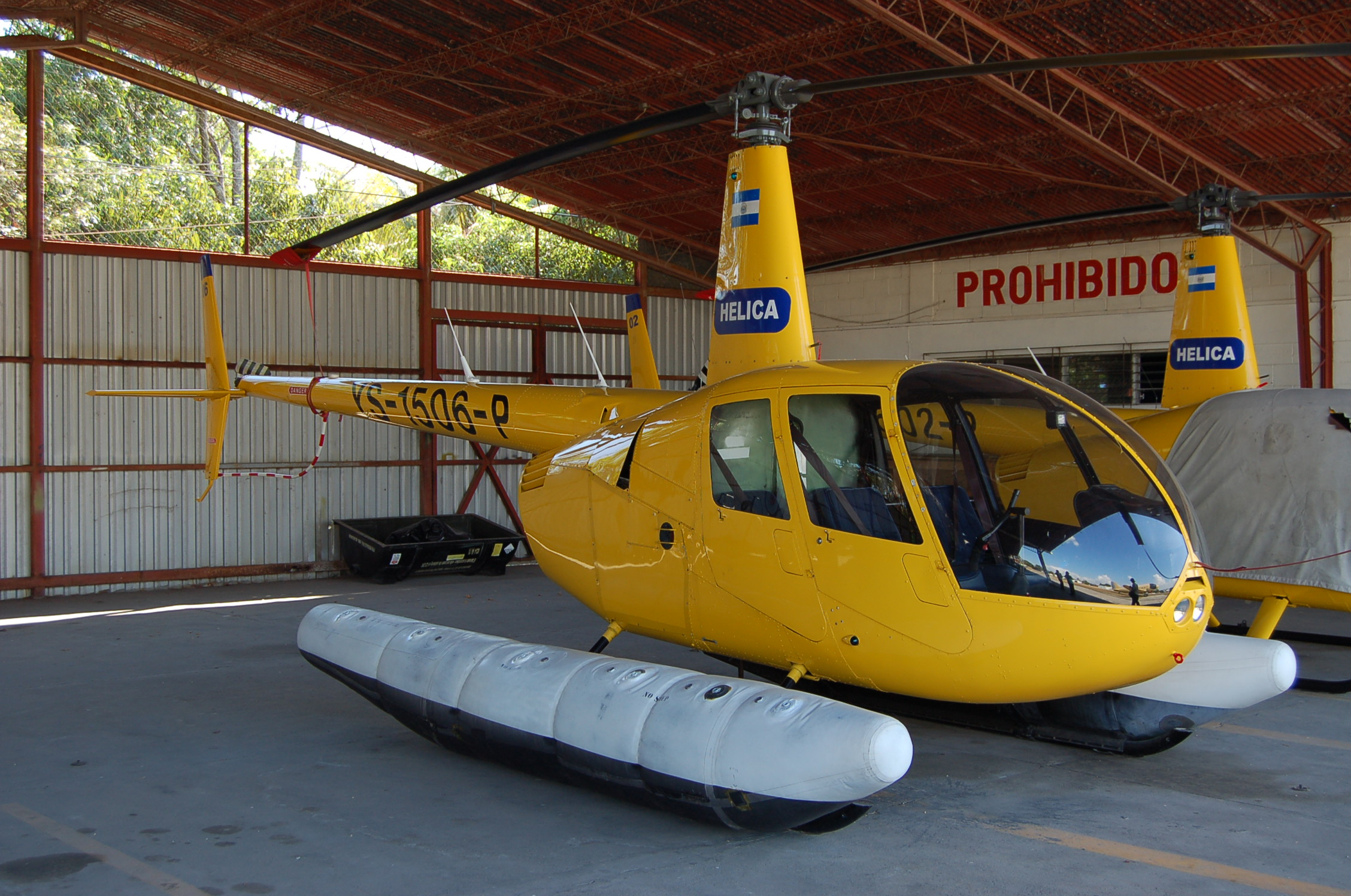 Robinson R44 with floats at Ilopango,El Salvador 28/02/11.